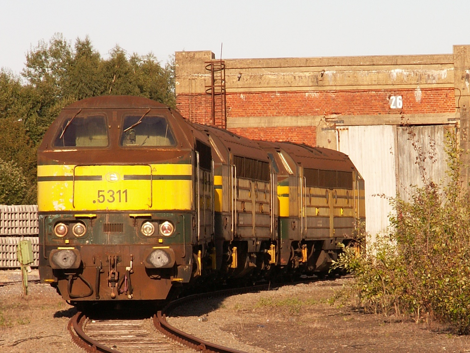 Diesel loc 5311 from the Belgian Railways (SNCB), seen at the Stockem (near Arlon, in the very south of Belgium) locomotives yard. These locs have been built under General Motors Licence and used to have a bulldog nose, but where rebuild for better driver comfort (specificaly, the drivers's cab was on the wrong side, reducing the ability to see groundfloor signals)